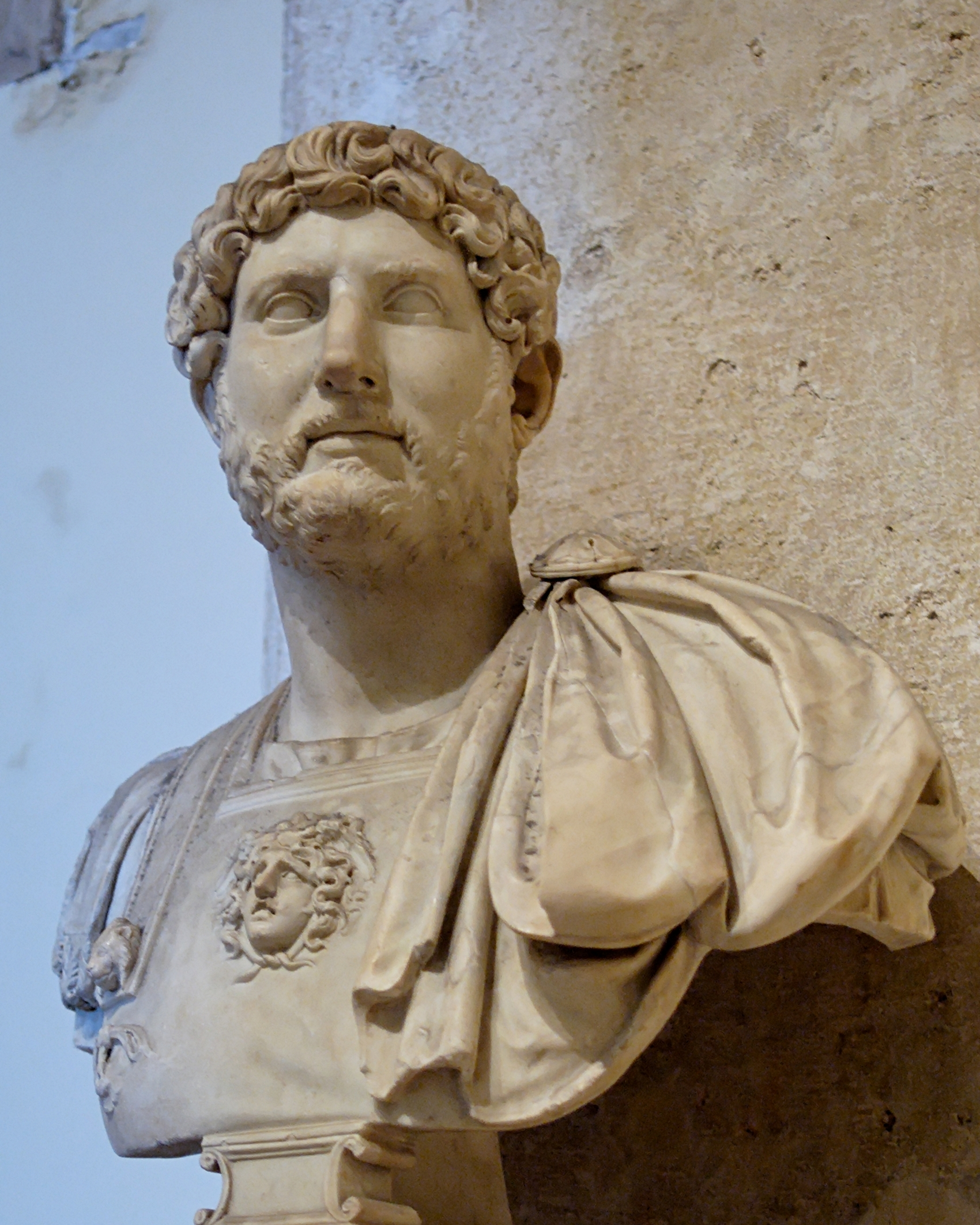 Bust of Hadrian (76 – 138), emperor